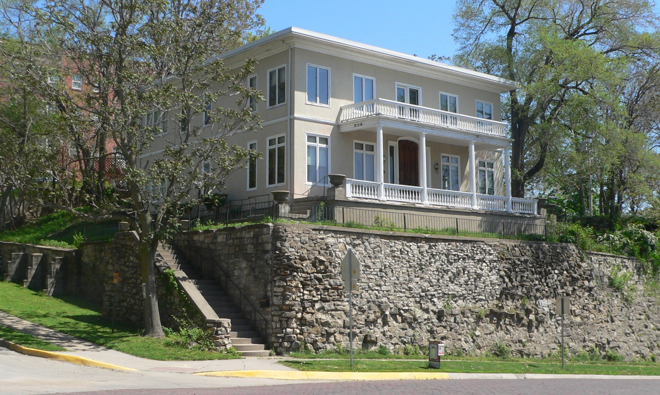 Frederick W. Stein house, located at 324 Santa Fe (southeast corner of 4th and Santa Fe) in Atchison, Kansas; seen from the northwest.